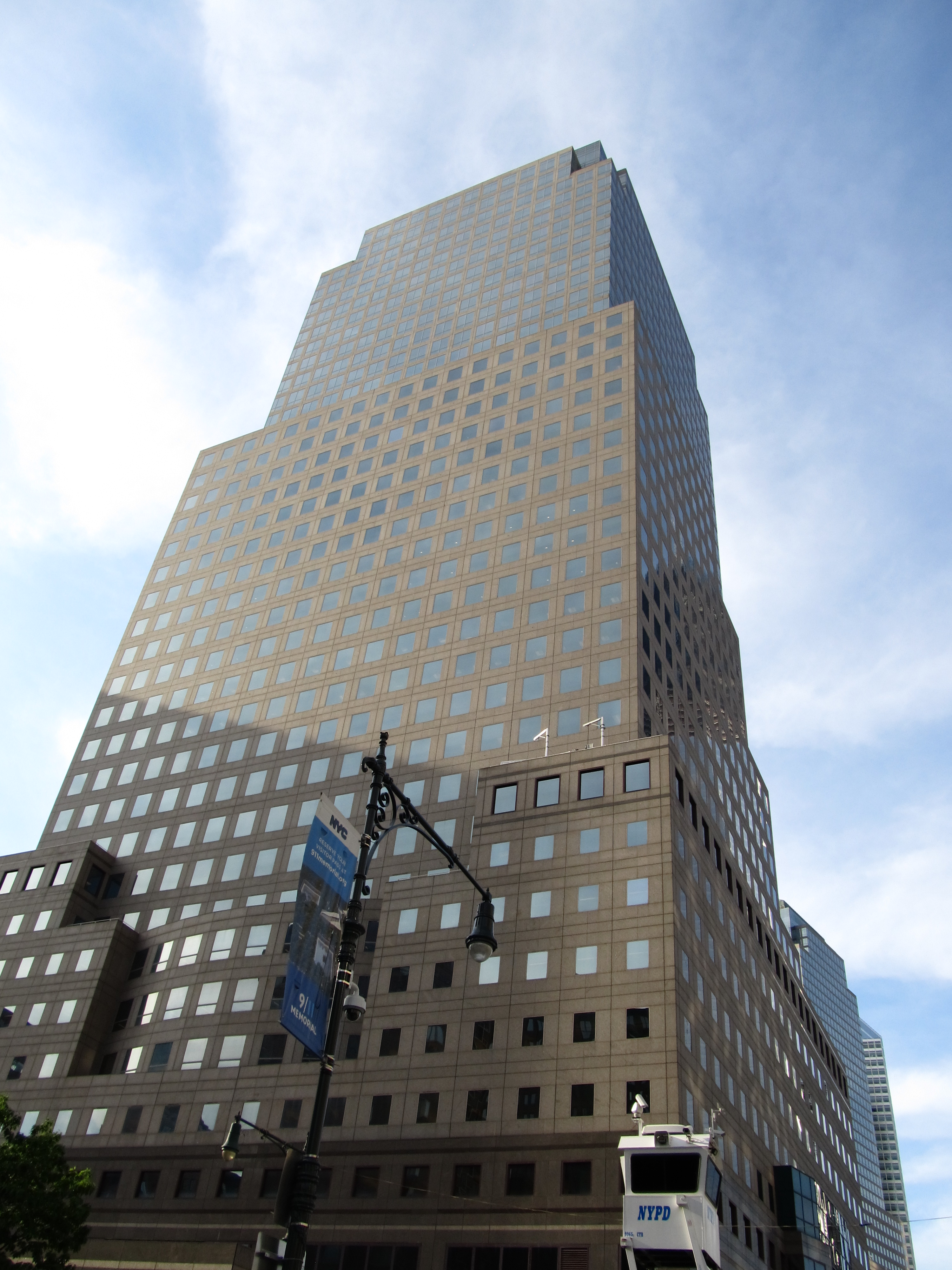 200 Liberty Street, New York, New York.